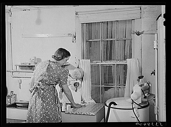 A New England housewife preparing dinner for her family.